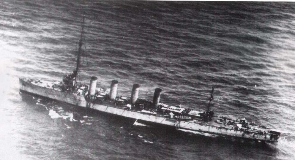 Aerial view of the damaged Austrian cruiser Novara following the Battle of the Otranto Straits, en:15 May en:1917 Downloaded from [1].